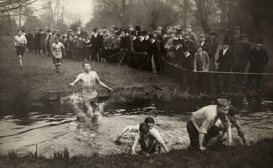 Boys run before a crowd in the “Junior Race” at Eton College in Windsor, England, August 1919. Photograph courtesy Central News Photo Service